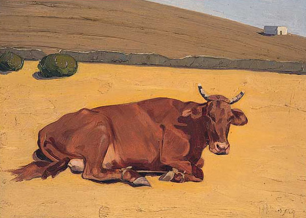 The Cow